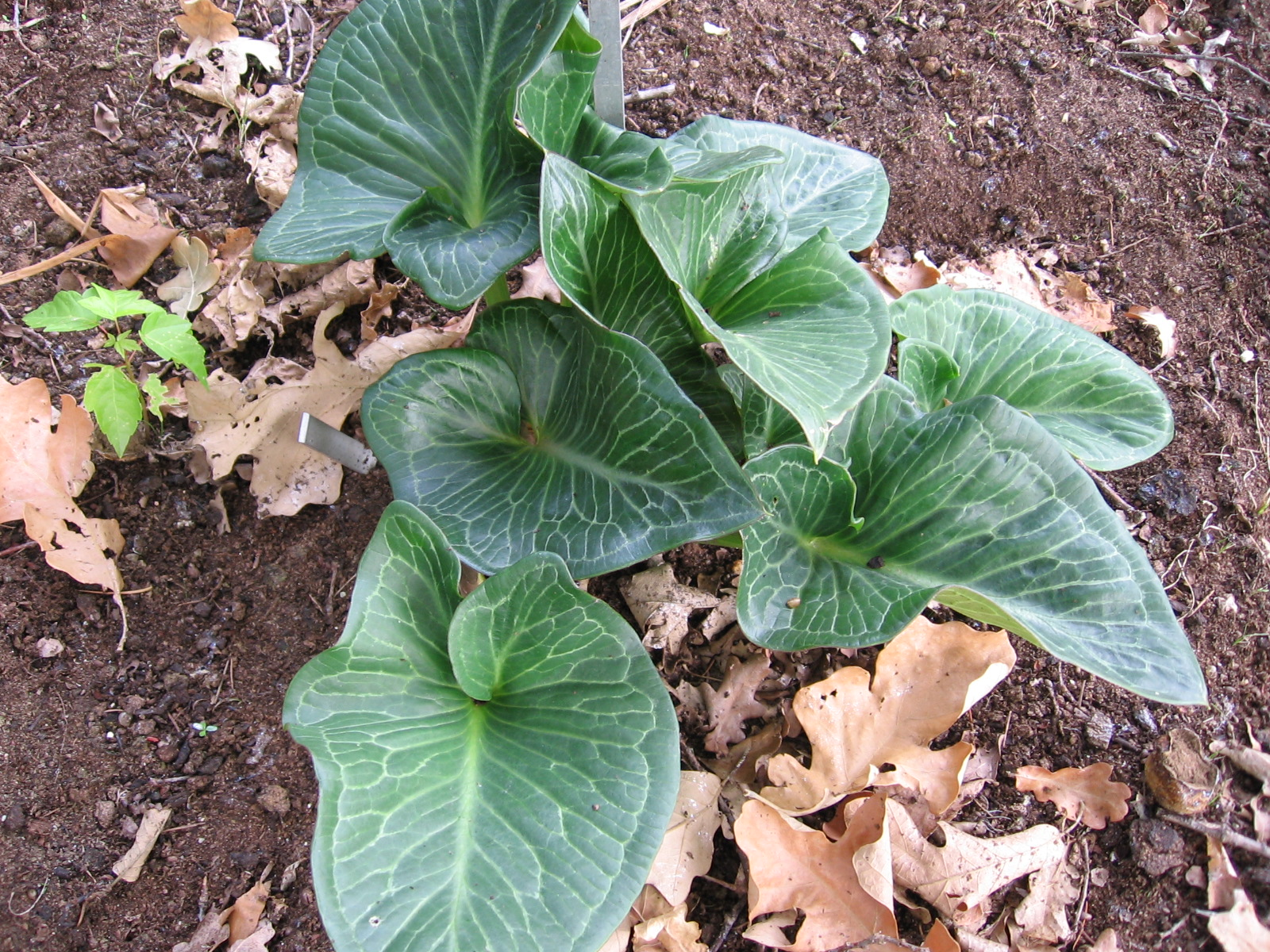 Arum pictum. Foto tomada en el Real Jardín Botánico de Madrid.